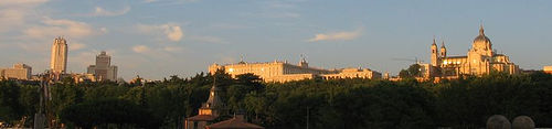 West skyline of Madrid (Spain)